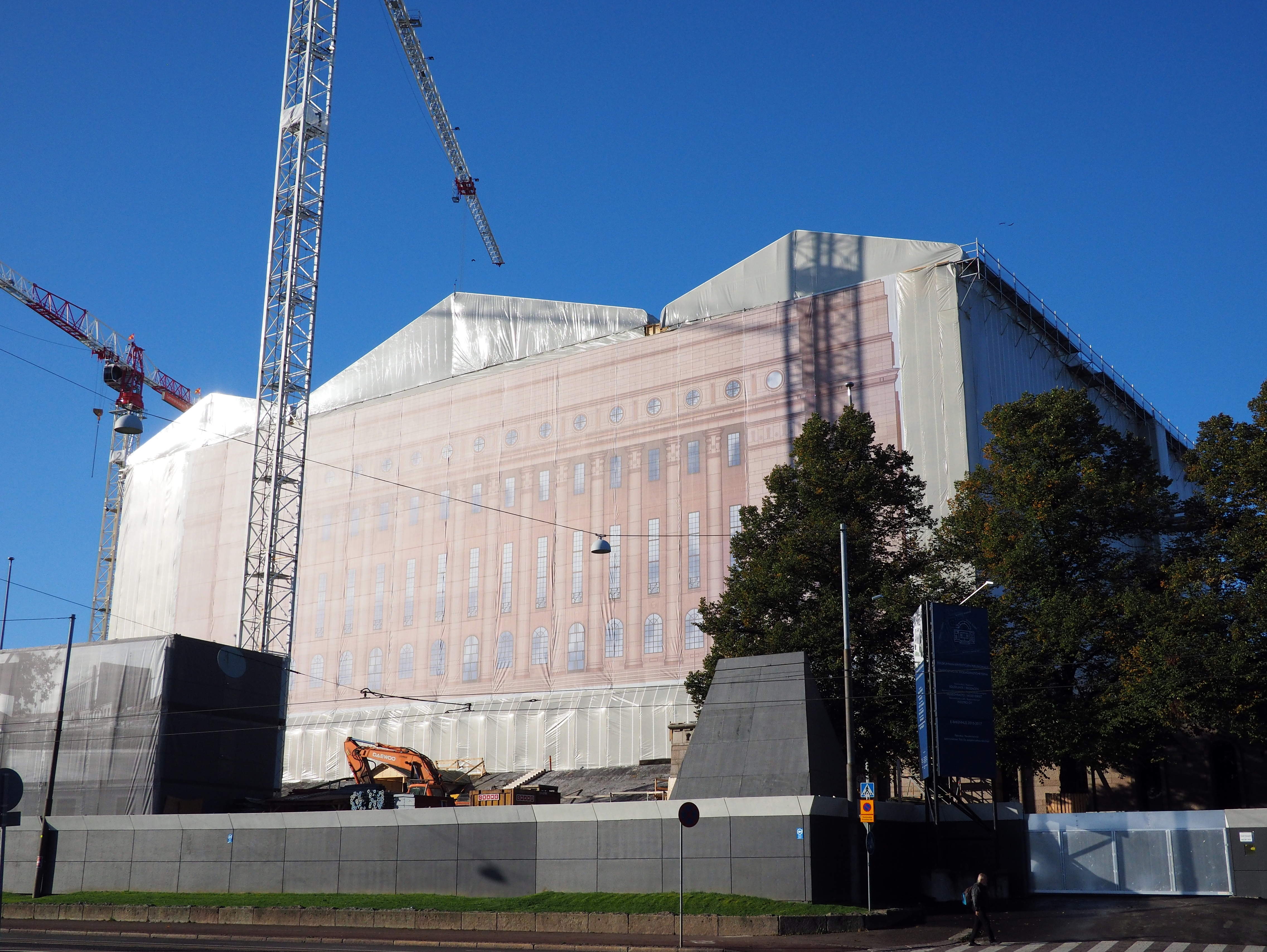 Parliament House in Helsinki during renovations